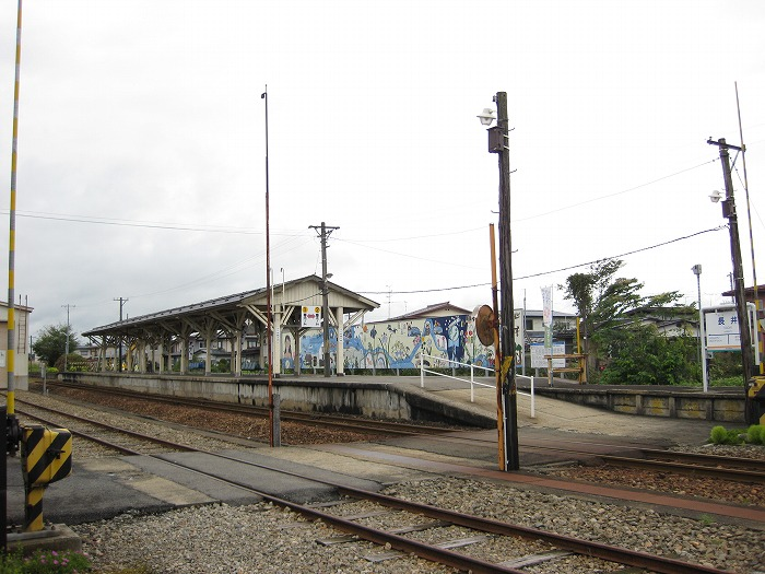 Nagai Station platform